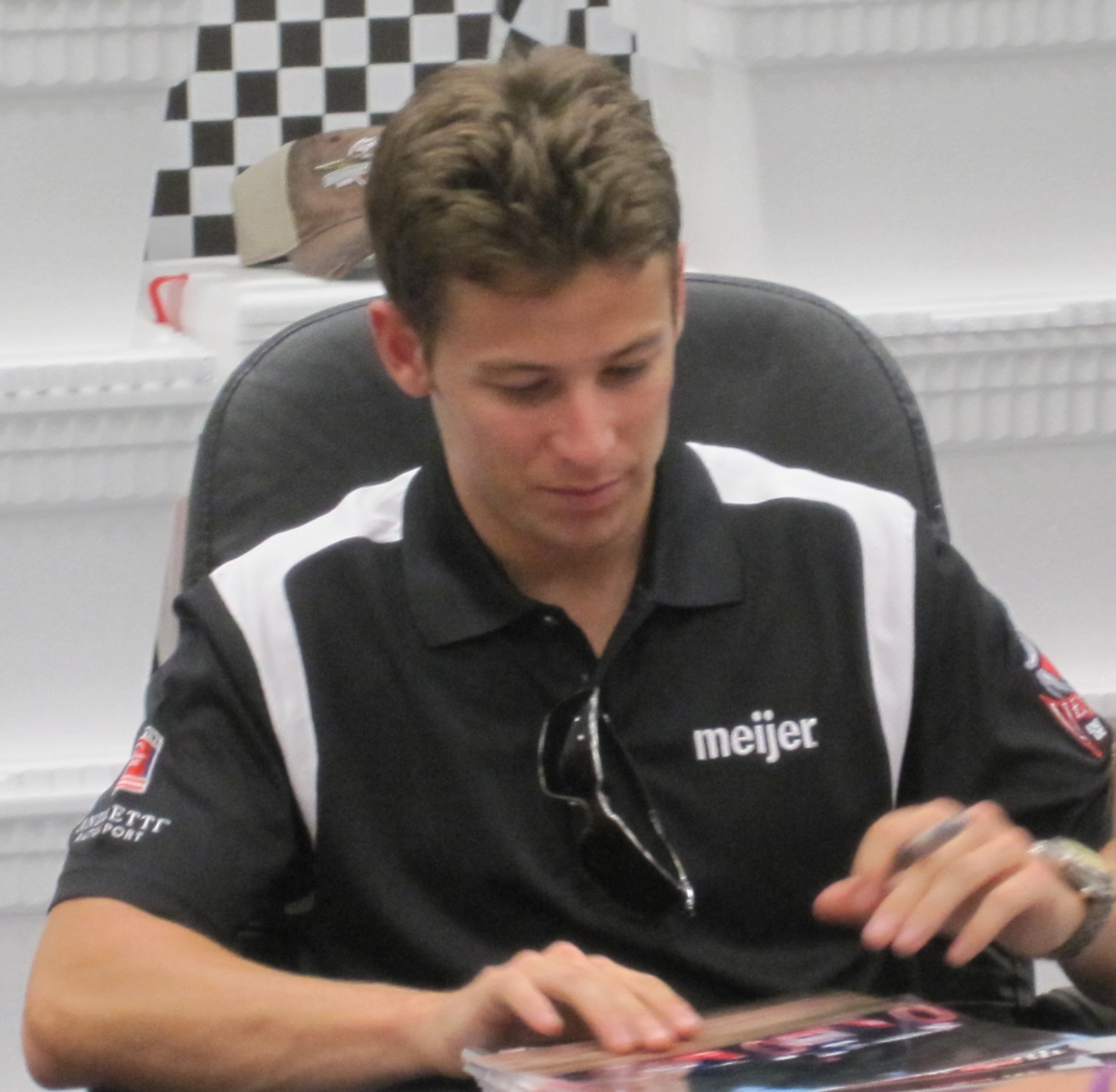 Andretti Autosport's Marco Andretti at an Andretti Autosport team autograph session at Meijer in Carmel, Indiana on Thursday, May 27, 2010.